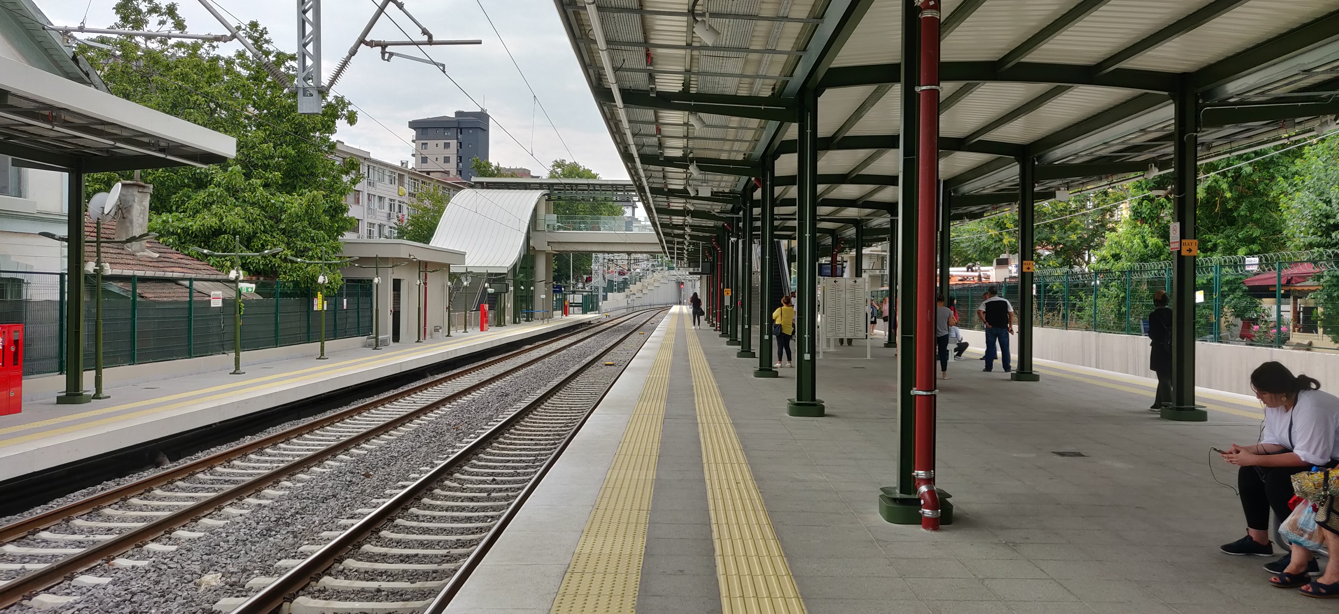 Looking west from the Marmaray platform of Bostanci station.